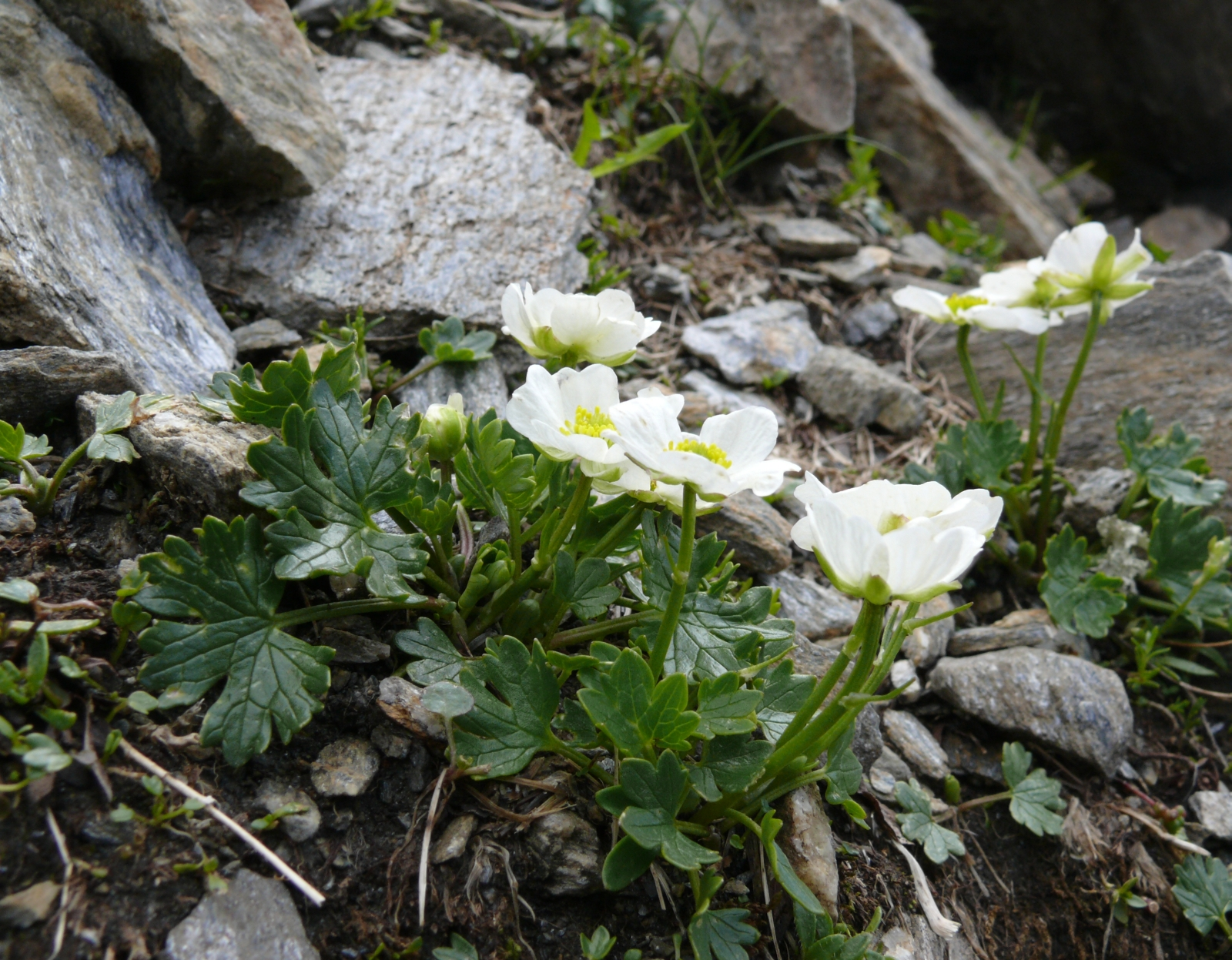 Ranunculus alpestris, Zillertaler Alpen, Italy